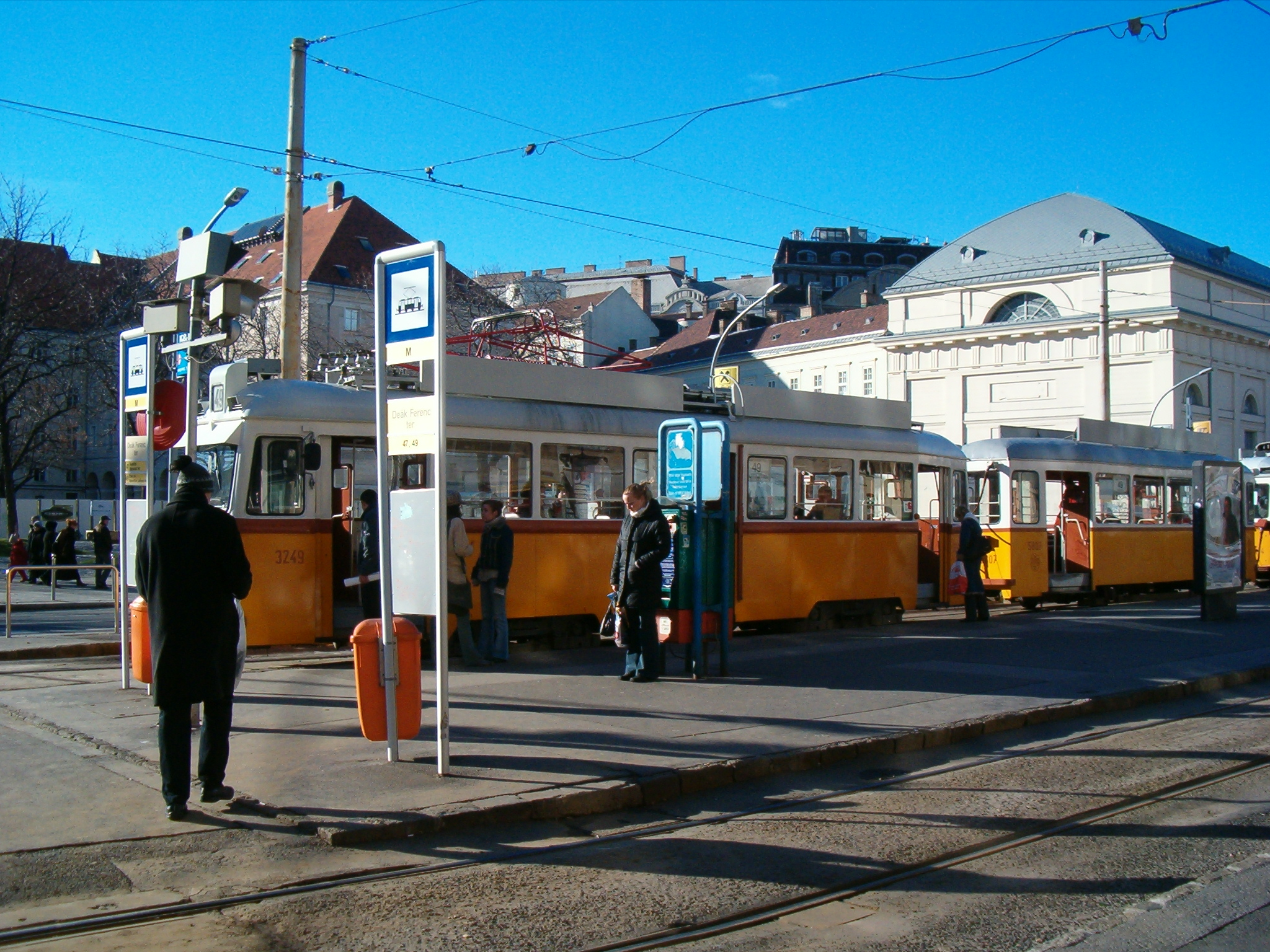 UV trams at 'Deák Ferenc tér' stop and at back the Lutheran church by József Hild (1808) - Ferenc Deák Square, Budapest District V Photo by uploader. Gubbubu 16:40, 21 February 2006 (UTC)